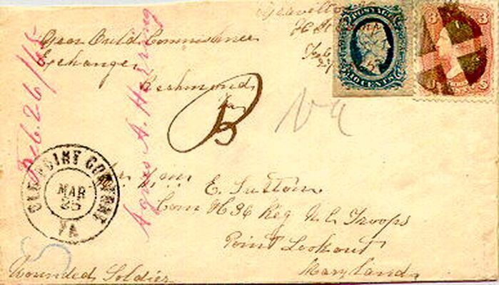 Civil War POW letter with dual US/CSA postage attached, 1865Mail from Virginia bearing a manuscript Virginia town,"Gravelton, Va" with postmaster’s signature.“H. A. Camp PM” ties the CSA stamp to cover, dated "Feb 27, 1865". Manuscript “Gen Ould Commisioner Exchange Richmond, Va” at upper left. Cover sent via Fortress Monroe Va with Old Point Comfort, Va double-ring Postmark, Mar 25, 1865, and the US stamp tied with cork cancel.